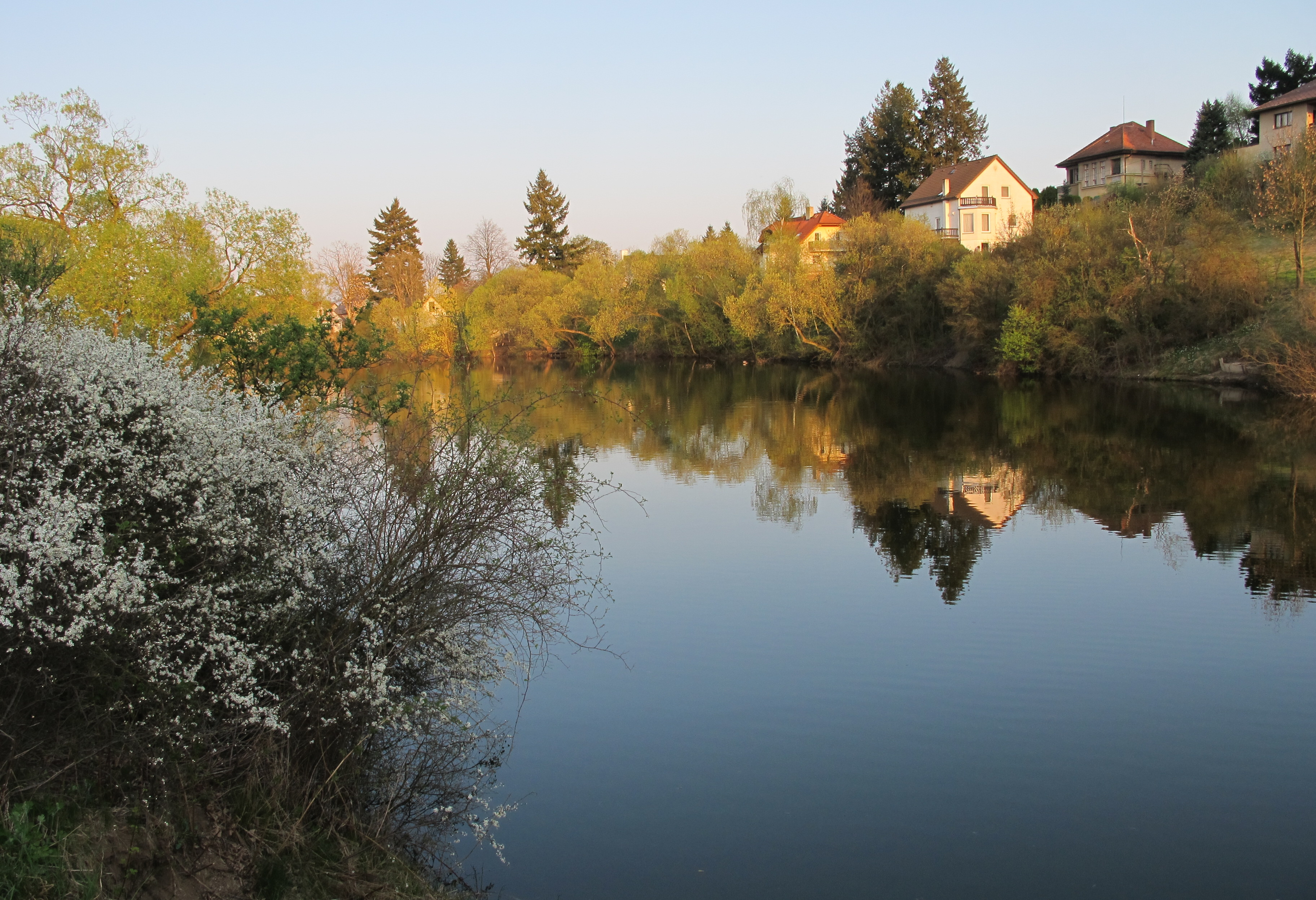 pond in a village Voznice, central part of Bohemia